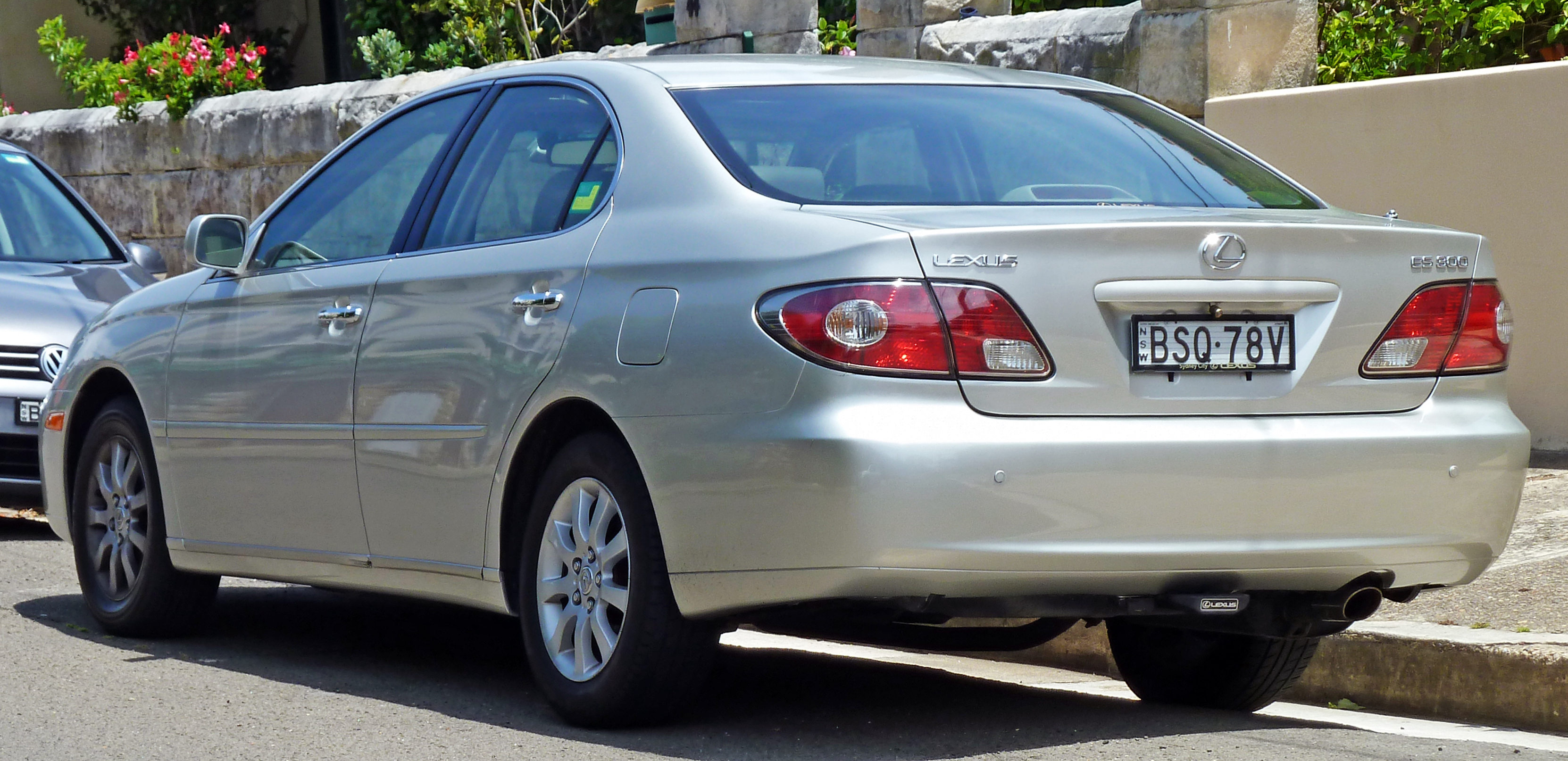 2003 Lexus ES 300 (MCV30R) sedan. Photographed in Vaucluse, New South Wales, Australia.